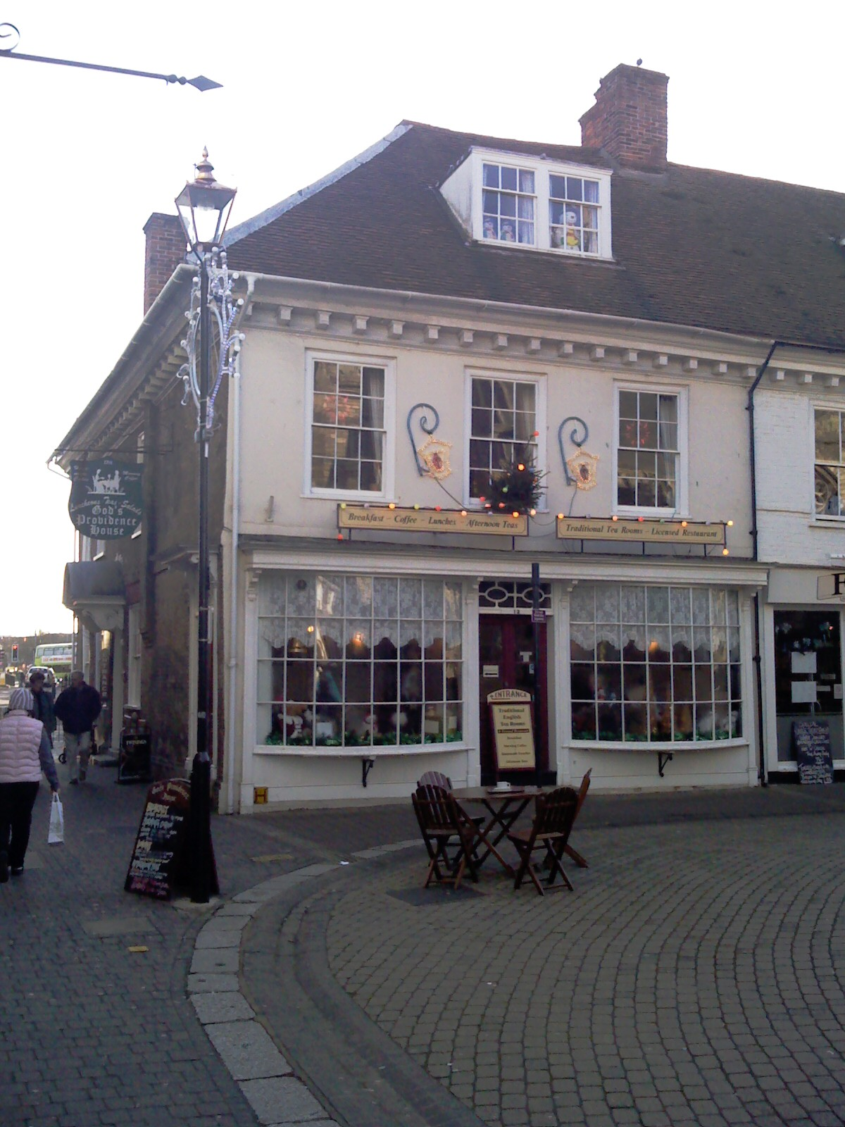 GOD'S PROVIDENCE HOUSE Wikidata has entry Q5575740 with data related to this building.